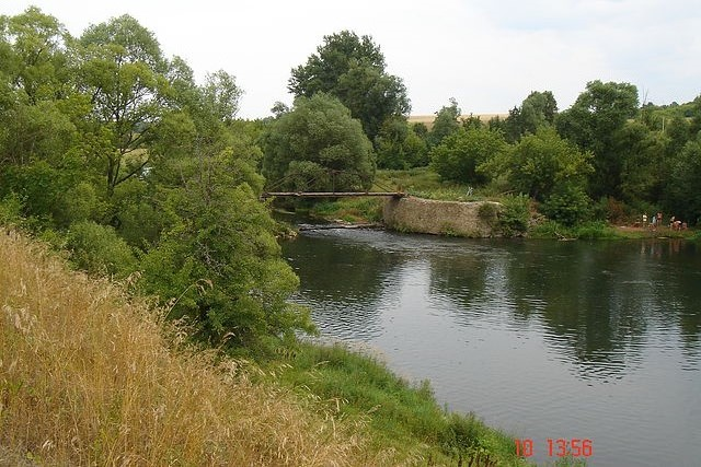 мост на мельницу